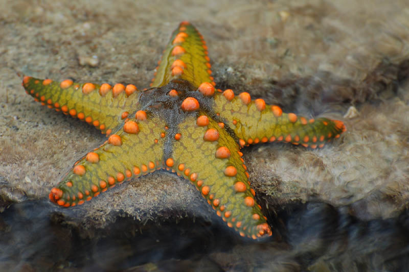 Unknown Starfish species, Lazy Lagoon, near Bagamoyo, Tanzania.